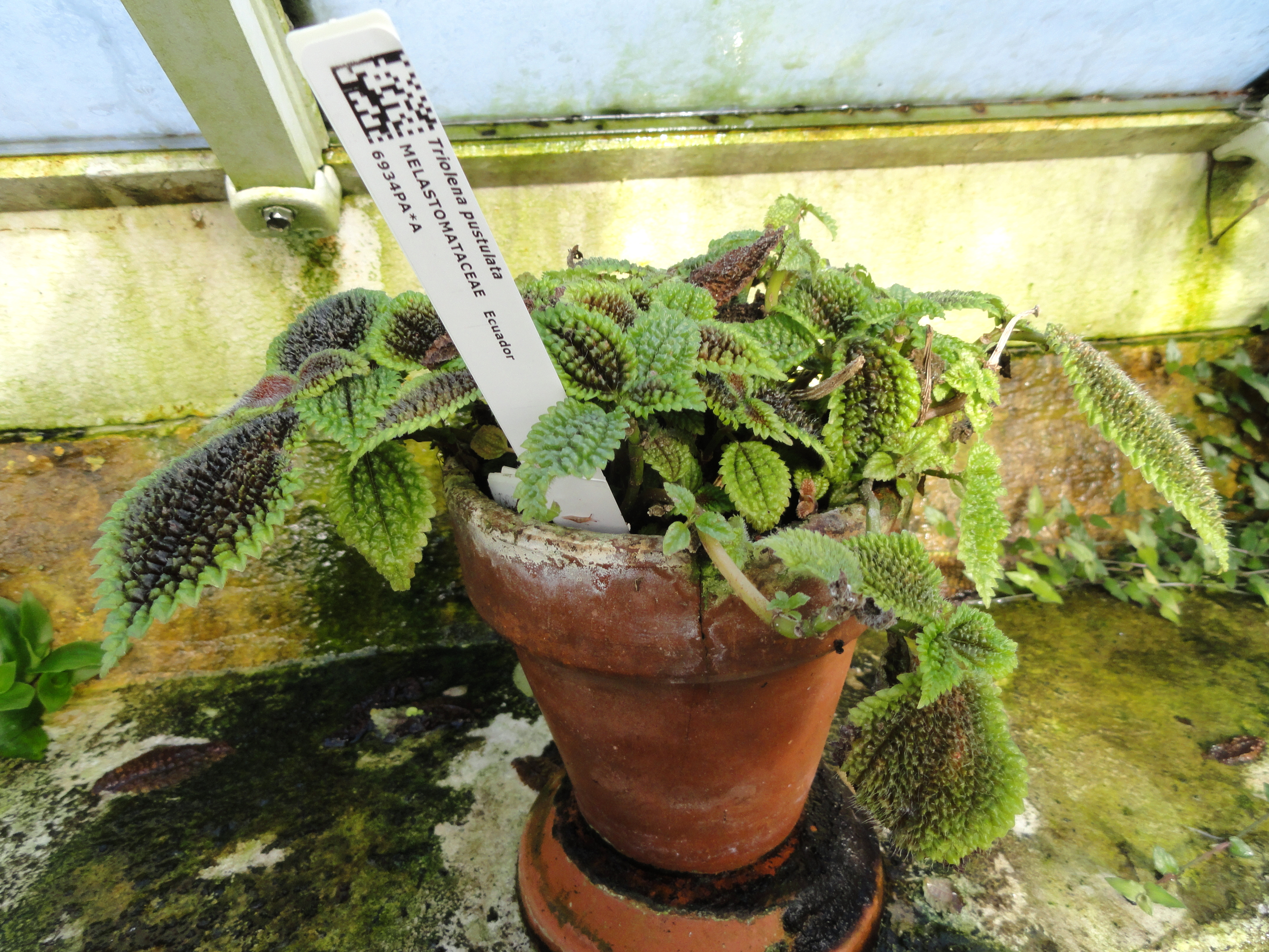 Botanical specimen in the Lyman Plant House, Smith College, Northampton, Massachusetts, USA. Note that one correspondent has stated that this specimen is misidentified: "I thought you might like to know that the plant in your photo of 'Triolena pustulata' is mislabeled. The plant in the photo is actually Pilea involucrata, a plant with somewhat similar leaf texture but in a different family. Hopefully the place it is growing has corrected that in real life."